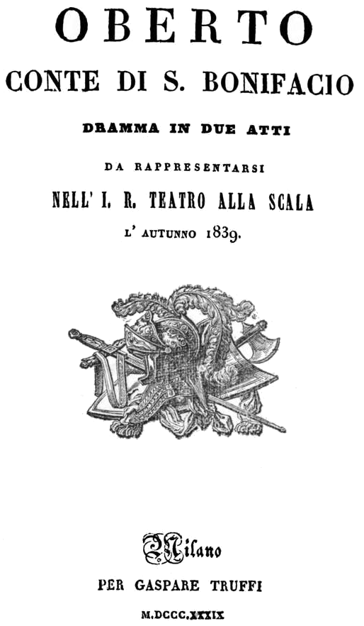 Verdi - Oberto - titlepage of the libretto - Milan 1839